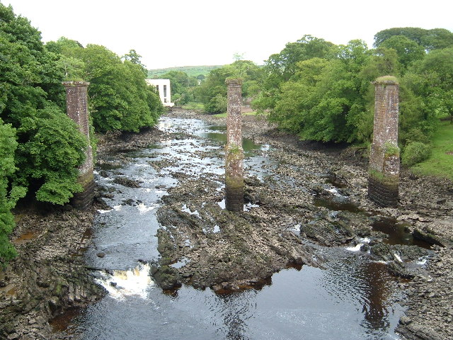 A view of the Dee and hydroelectric power station taken from Tongland Bridge on June 18th, 2005. The piers in the foreground are the remains of a disused railway bridge, part of a branch line to Kirkcudbright. They were pulled down in early August, 2005.